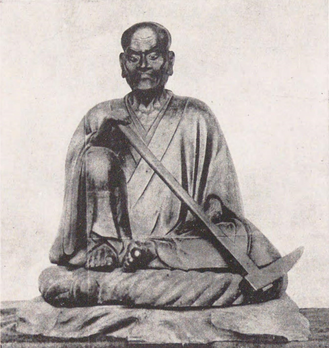 A statue of Suminokura Ryoi, a merchant in Sengoku- early Edo period at Daihikaku Senkoji, Nishikyo-ku, Kyoto, Kyoto prefecture.